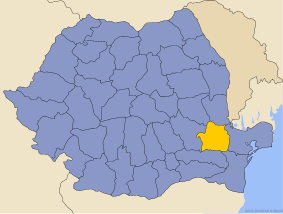 Location of Brăila County in Romania.